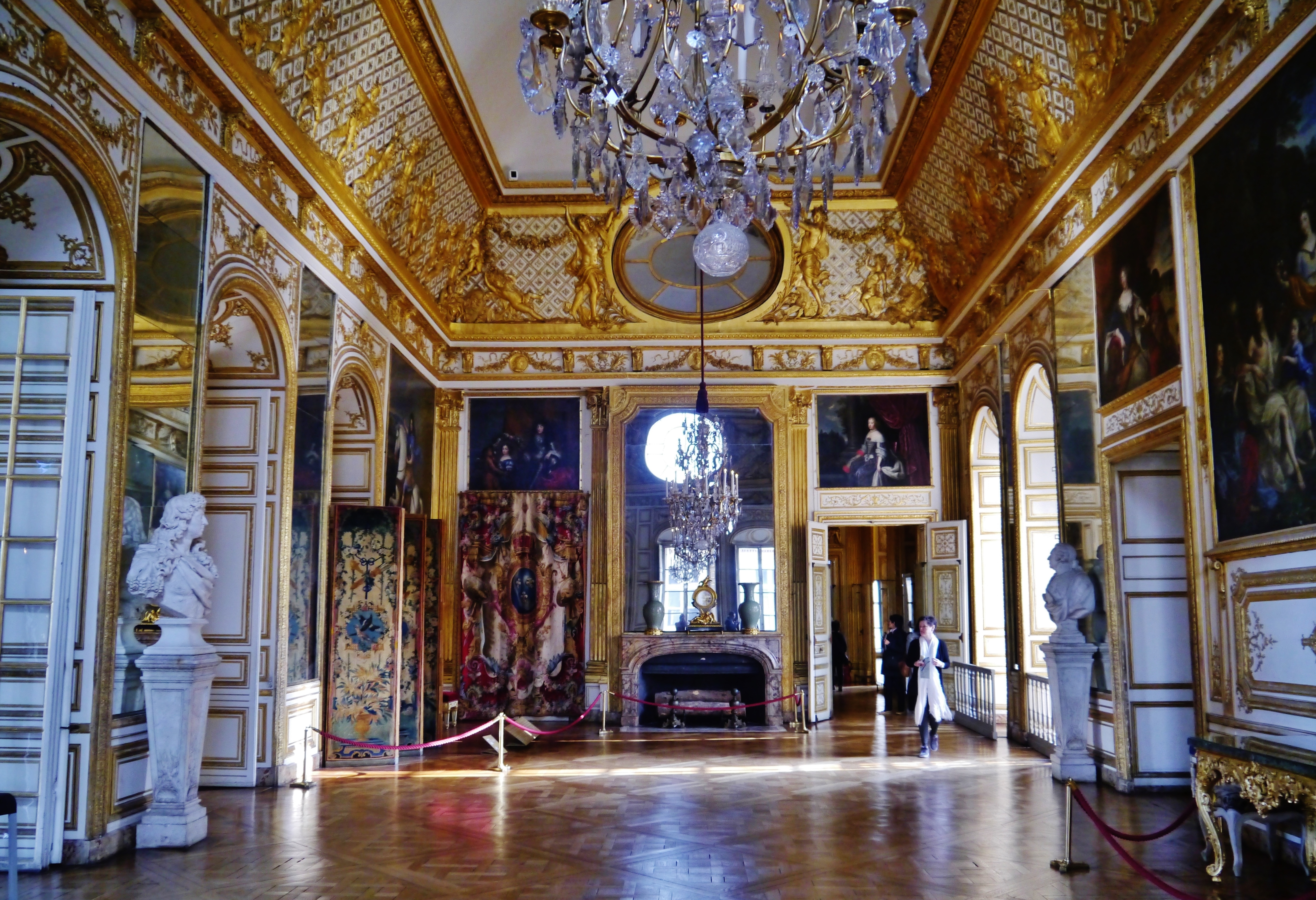 Bull's Eye Salon at Versailles Palace, Versailles, Département of Yvelines, Region of Île-de-France, France